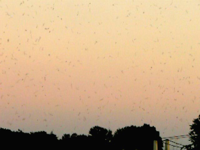 Aeroplankton photographed in Meung-sur-Loire, above the river Loire (France). Several dozens of insects per m3 of air are present over the entire width of river. During all the day thousands of swallows hunt them and during the night a large number of bats and spiders captured in the unusually high number because of phenomena of light pollution where it exists.